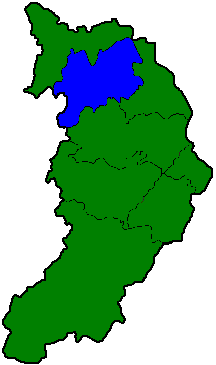 District (rayon) locator in Khakassia